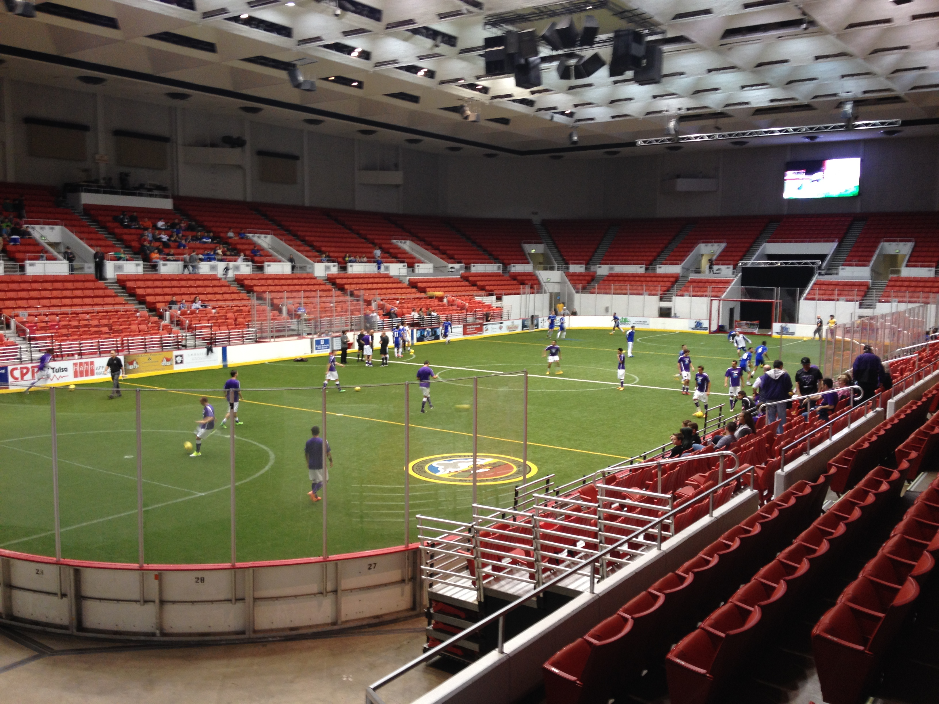 MASL Tulsa Revolution and Dallas Sidekicks warming up before a game in the Cox Business Center arena.